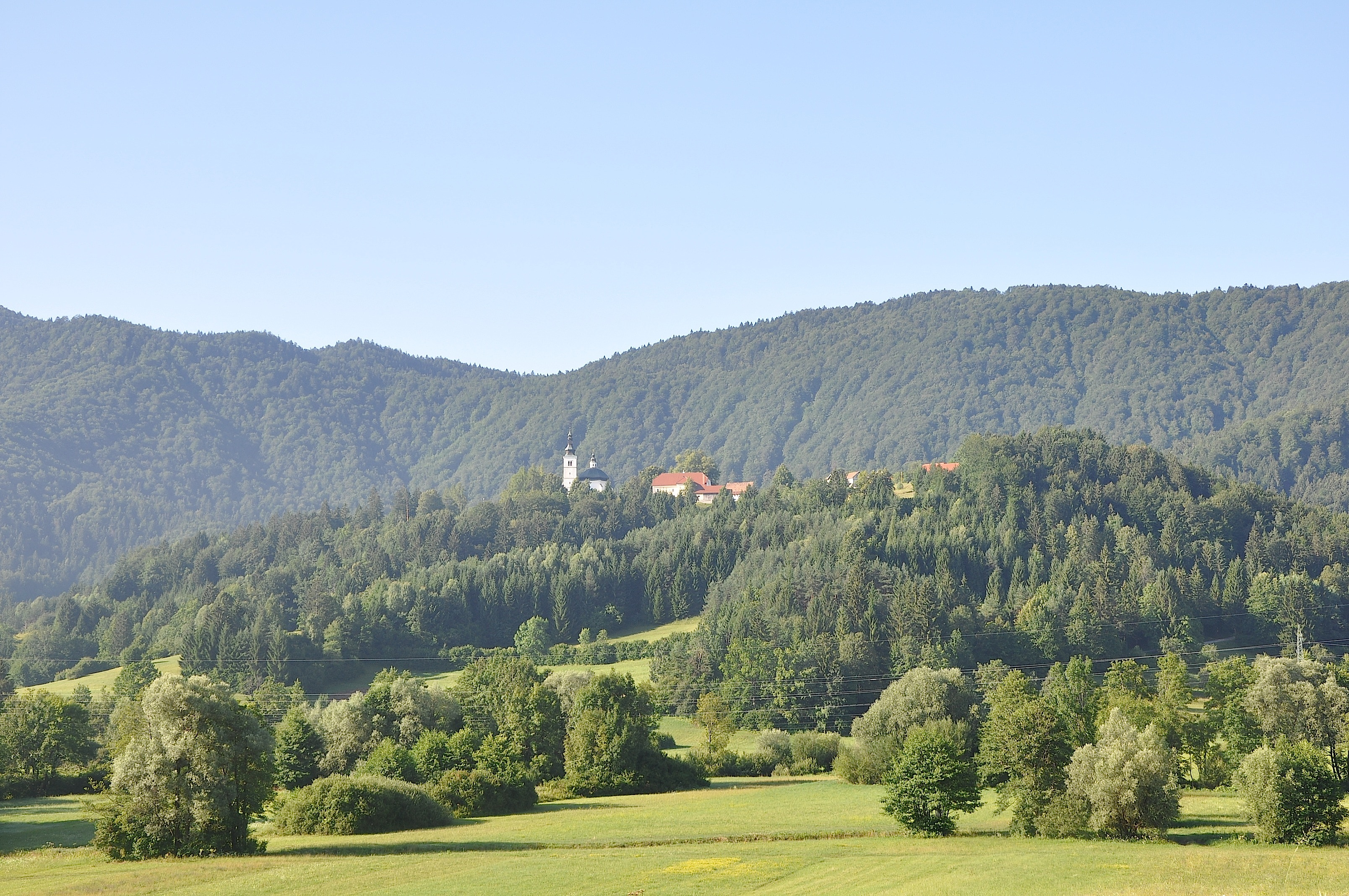 Nova Štifta, village + church, Slovenia